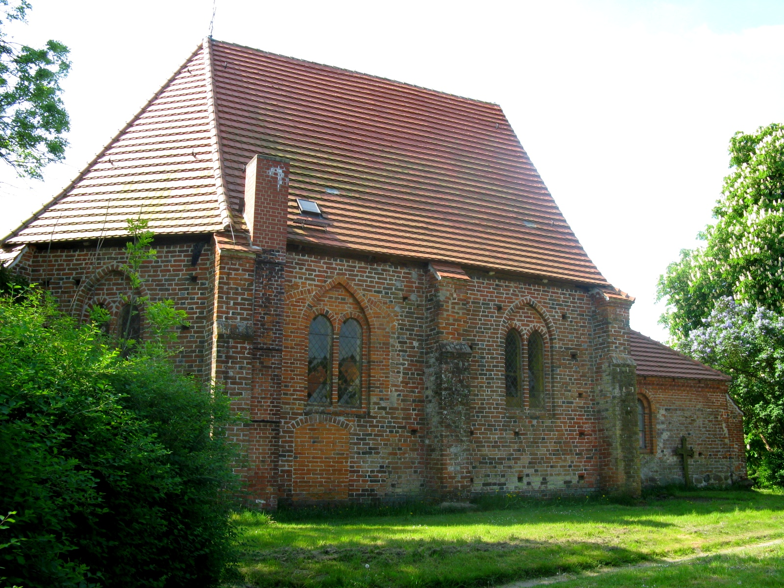 Church in Gammelin, district Ludwigslust-Parchim, Mecklenburg-Vorpommern, Germany